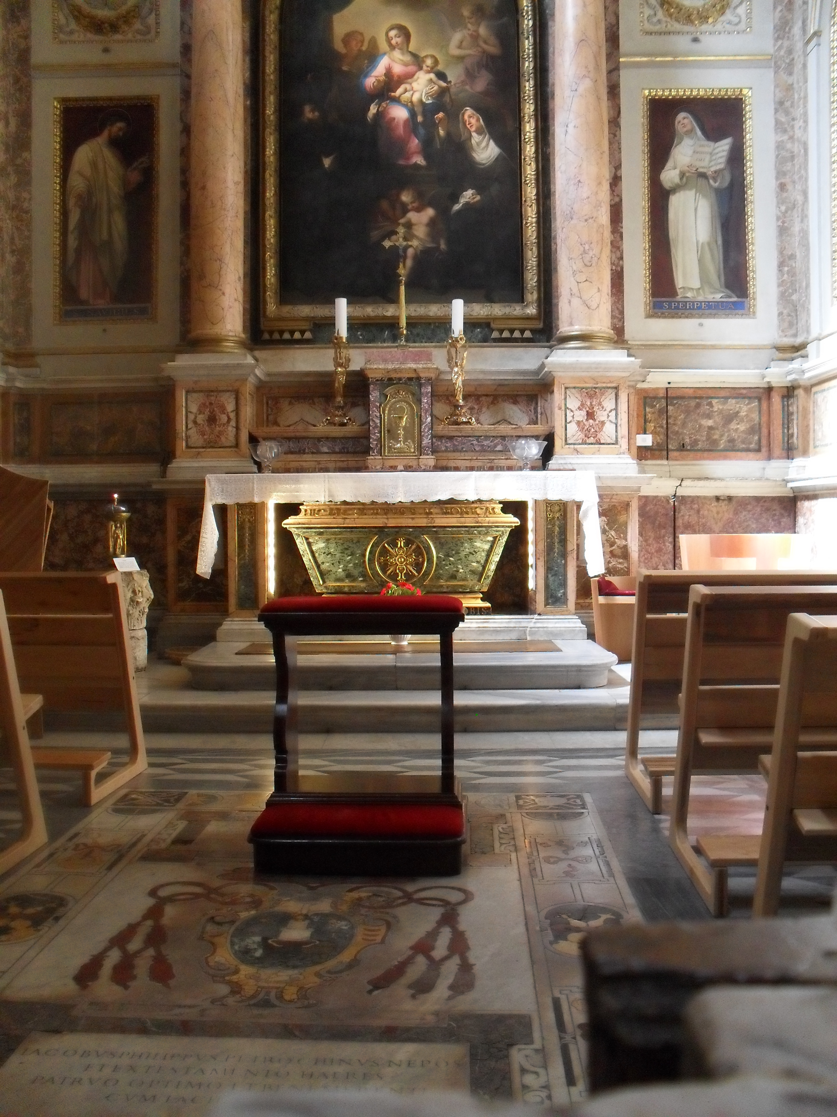 The tomb with relics of Saint Monica in Sant'Agostino Church in Rome